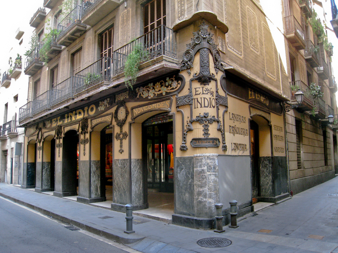 The traditional shop El Indio (“The Indian”) at the street Carrer del Carme in Barcelona, Catalonia (Spain).